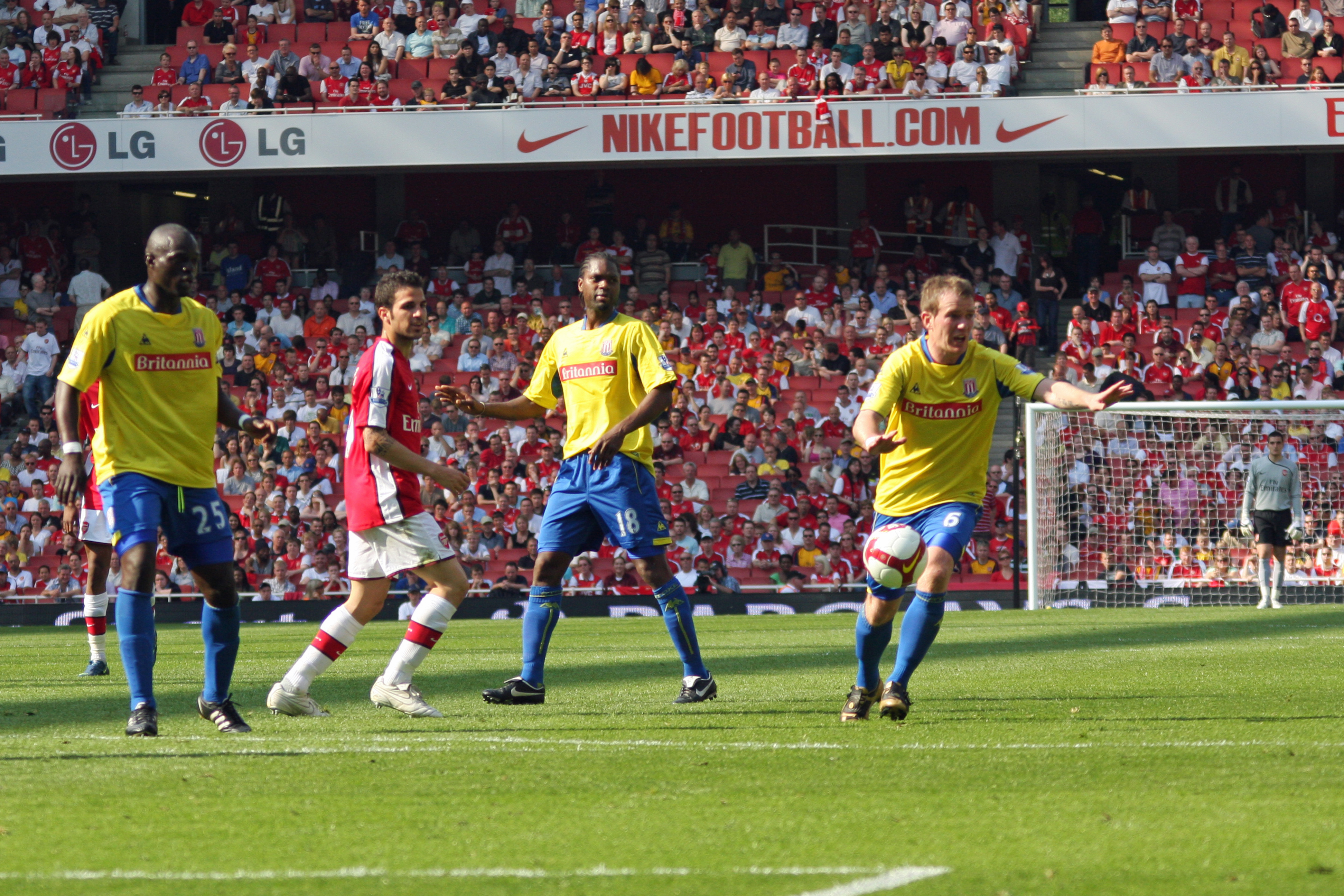 From left to right, Abdoulaye Diagne-Faye, Cesc Fàbregas, Salif Diao and Glenn Whelan.